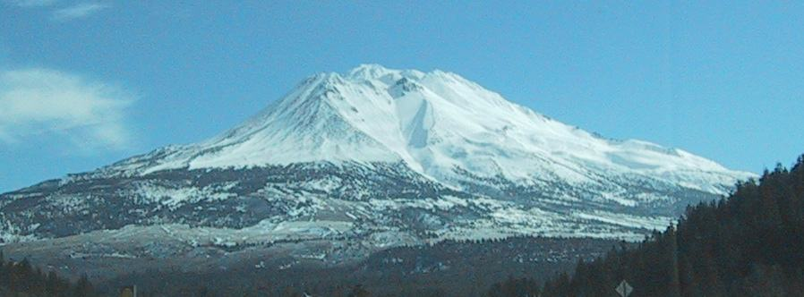 Mount Shasta, California, taken from Interstate 5.